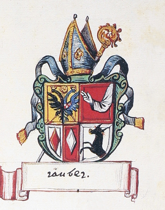 Coat of Arms of Christophorus Rauber, Bishop of Ljubljana (eagle) and Seckau (hand)